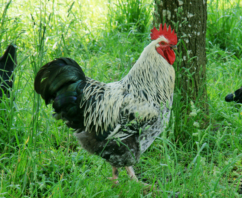 Marans Gallus Gallus